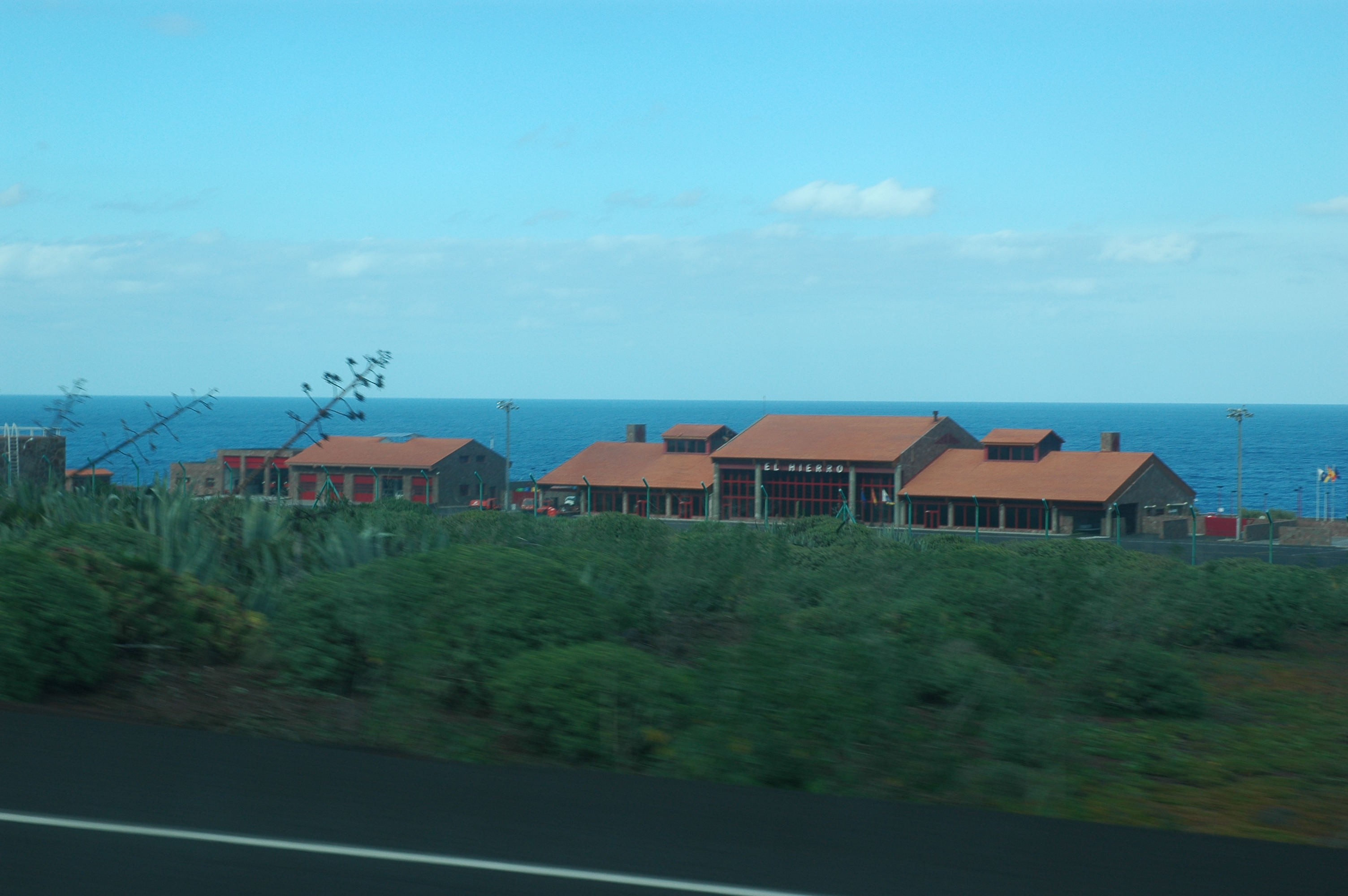 El Hierro Airport terminal in Valverde (El Hierro, Canary Islands. Spain).